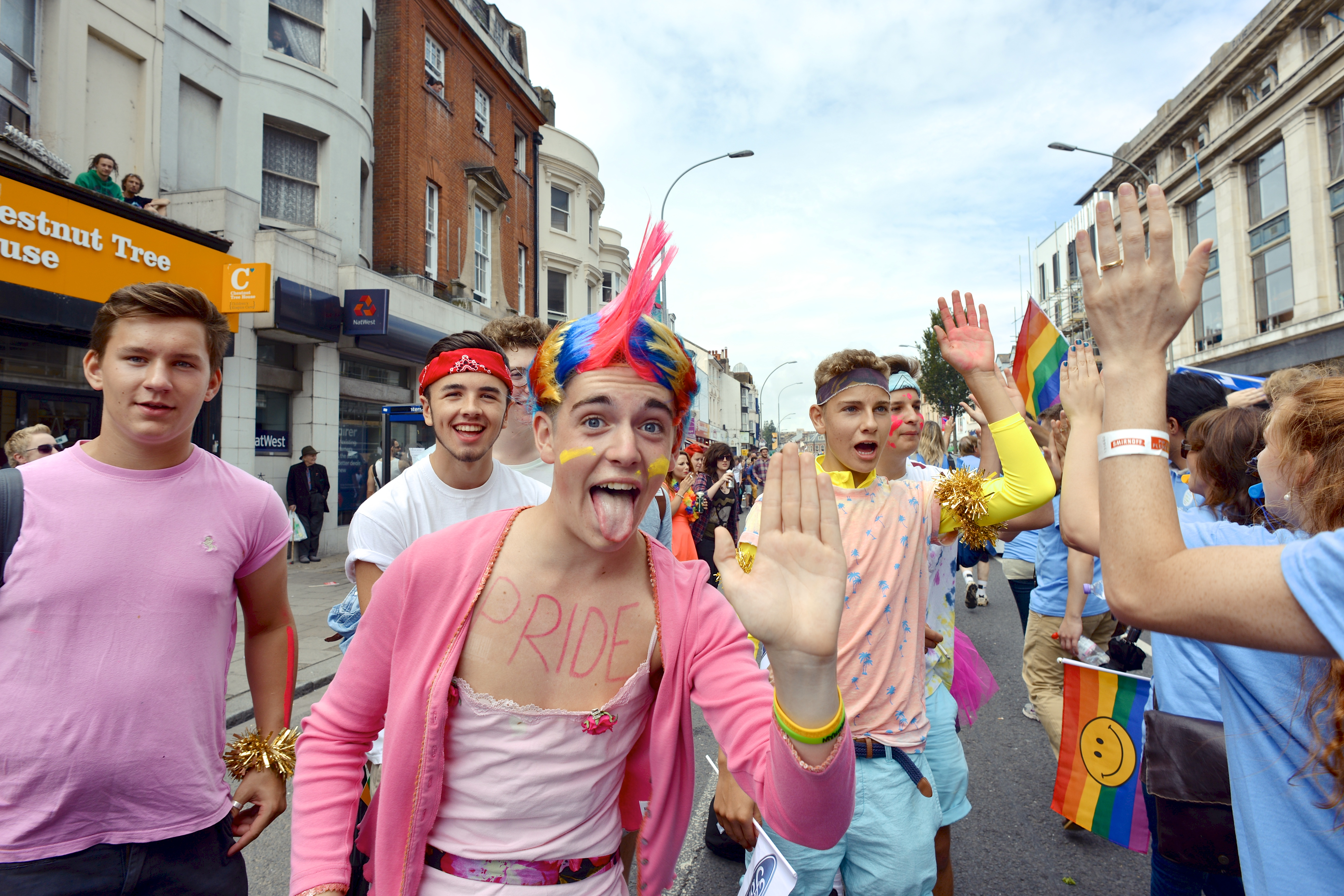 Brighton Pride'14